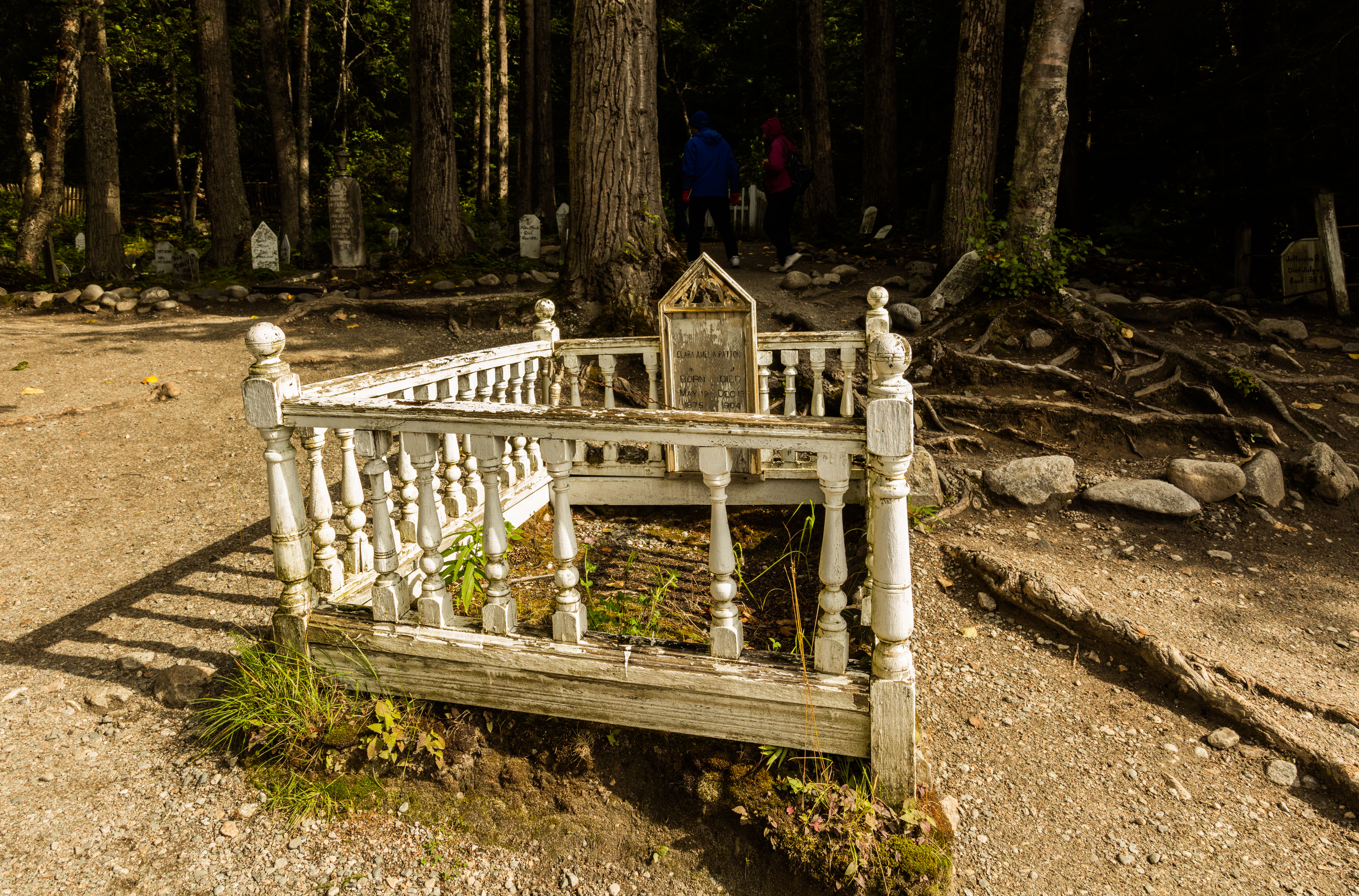 Gold Rush Cemetery, Skagway, Alaska, USA